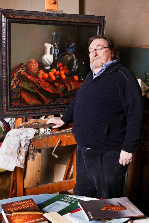 painter Willem Dolphyn